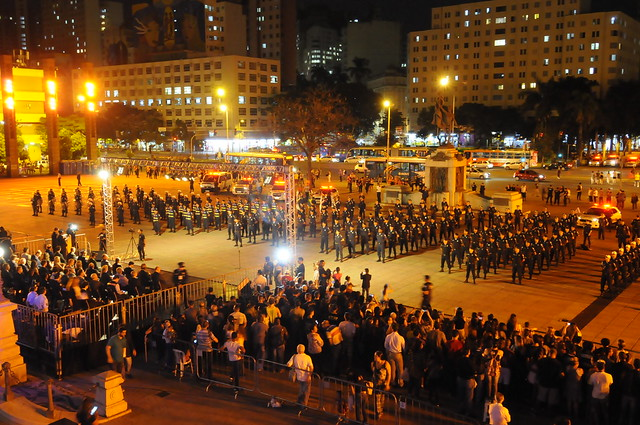 Guarda Civil Belo Horizonte 15 anos